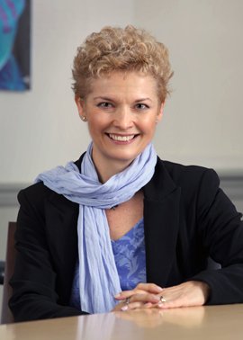 Photograph of Della Hahn.